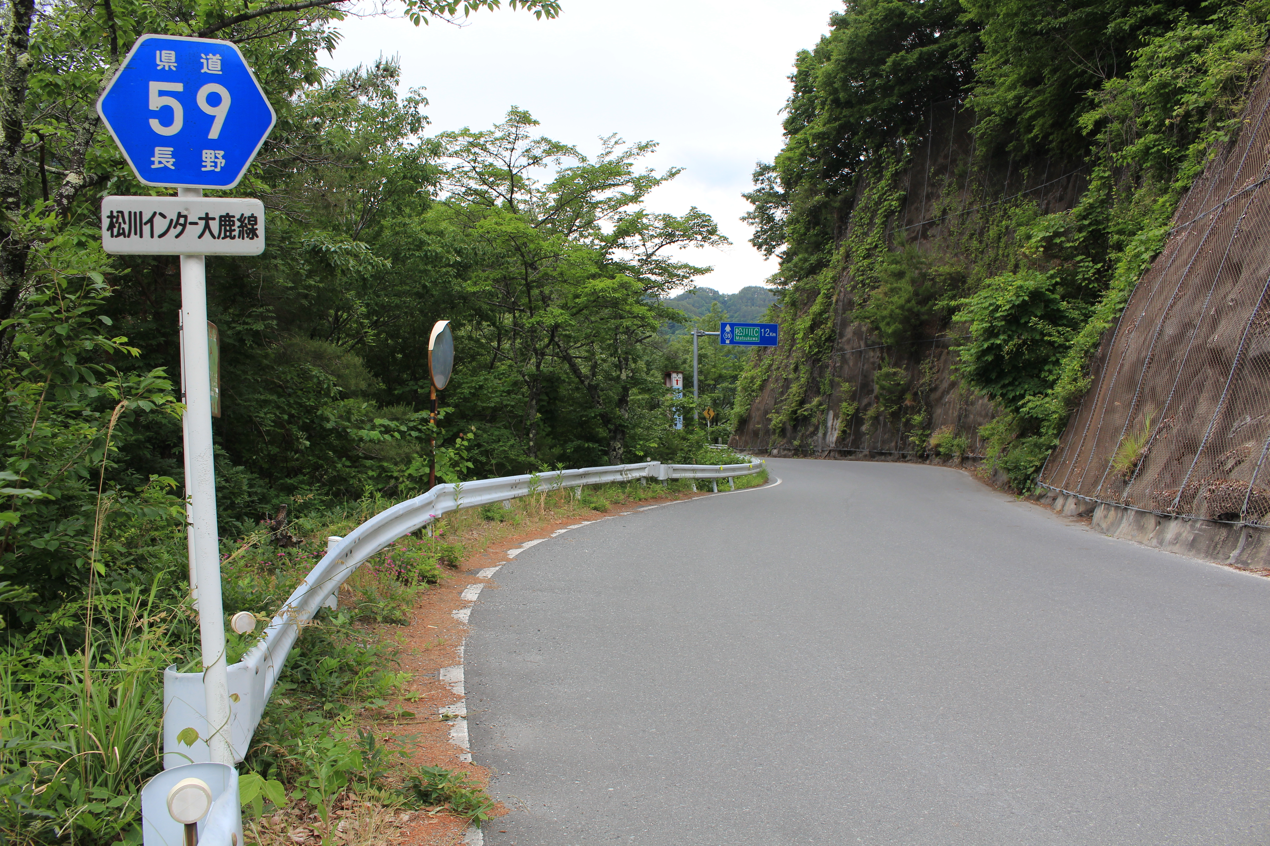 Nagano Prefectural Road Route 59 in Nakagawa, Nagano prefecture, Japan.